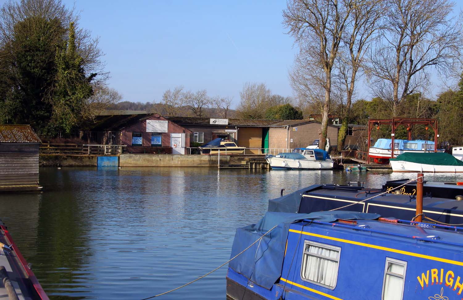 Bossom's Boatyard on the River Thames at Binsey, Oxfordshire